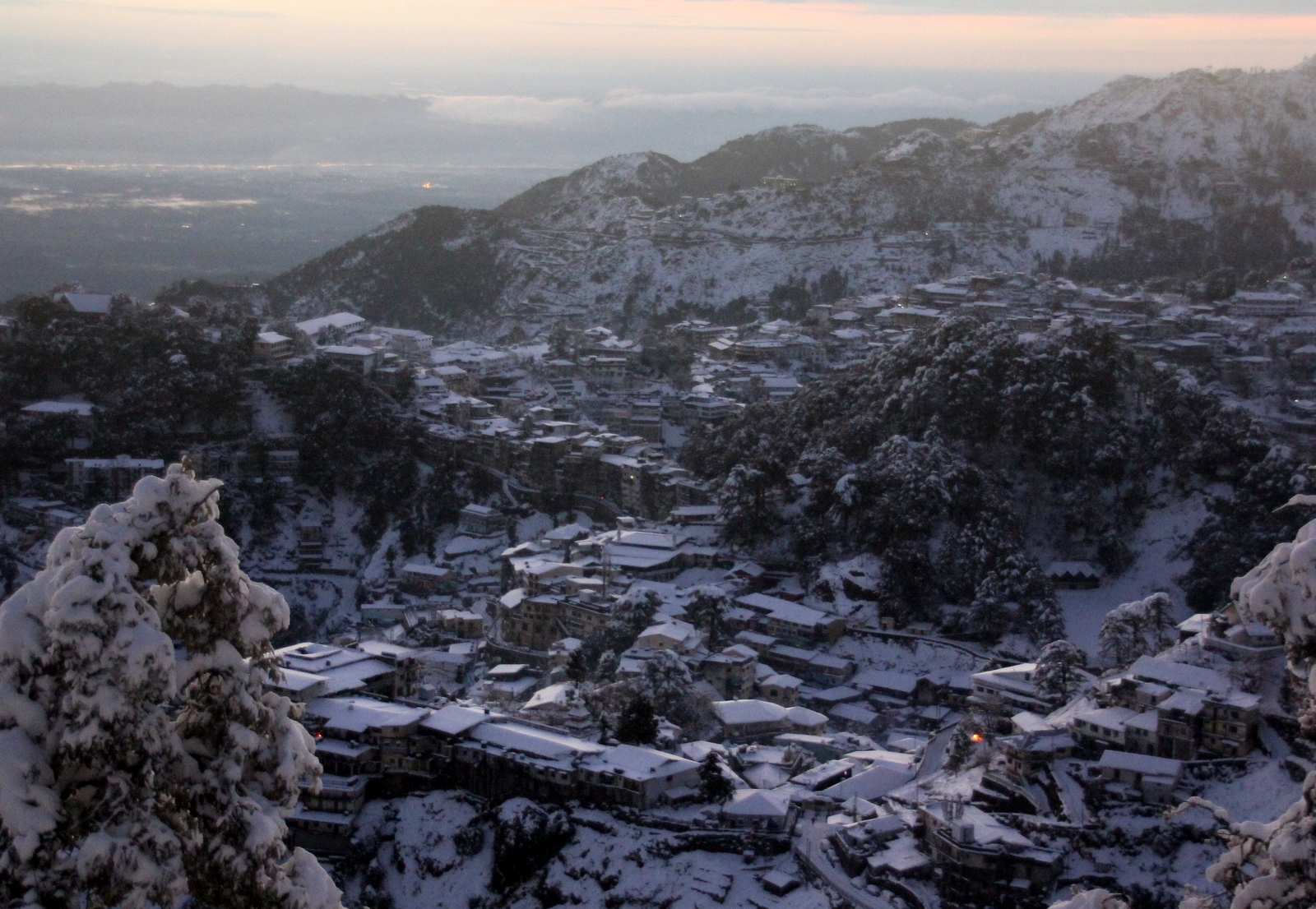 Snow on Landour Bazar